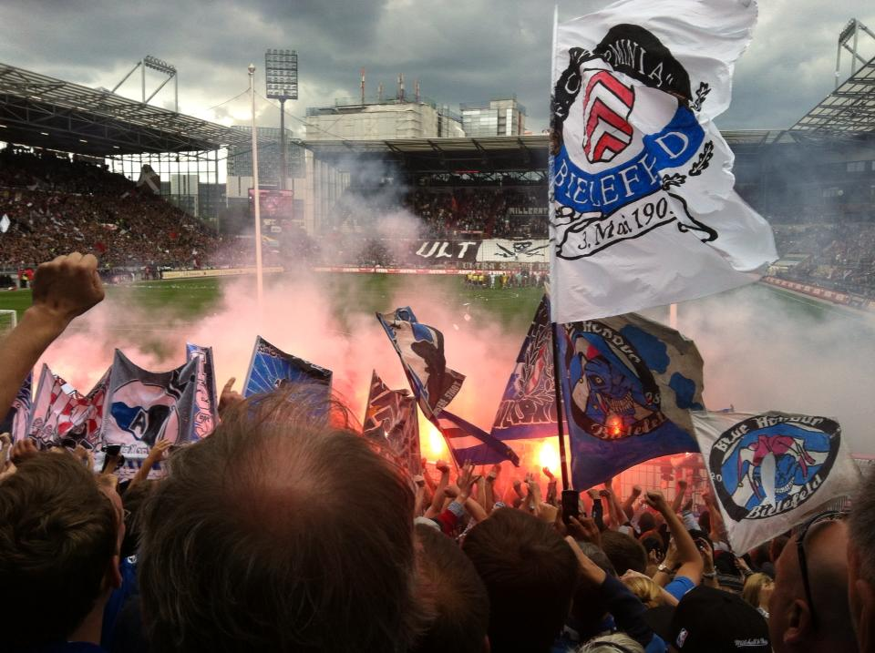 Fans of DSC Arminia Bielefeld away in St. Pauli (Millerntor-Stadion). Result 0:1